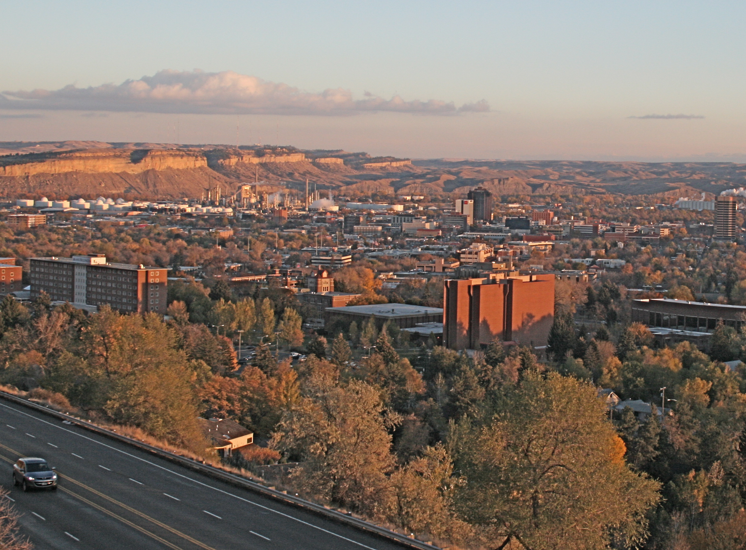 Billings, Montana MSUB